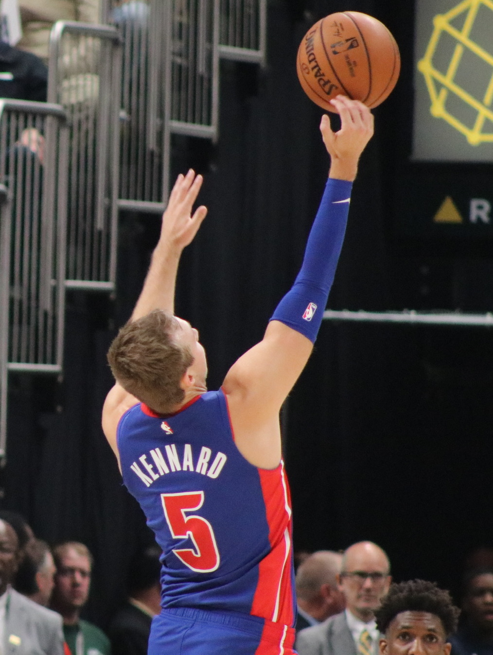 Luke Kennard of the Detroit Pistons goes up for a shot while Edmond Sumner of the Indiana Pacers and Thon Maker of the Detroit Pistons look on.